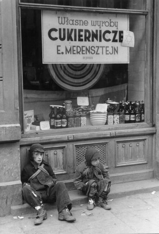 Warsaw Ghetto: Children in front of Jedydia Merensztejn bakery at Nowolipki 7 street.